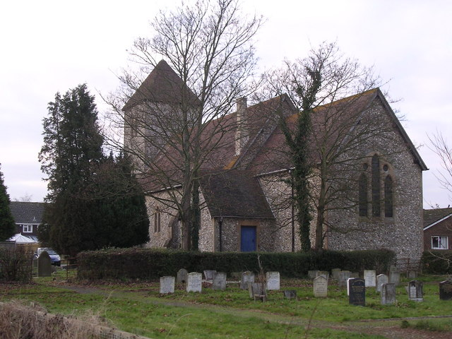 St Michaels and All Angels, Partridge Green Church of England church in the Deanery of Horsham